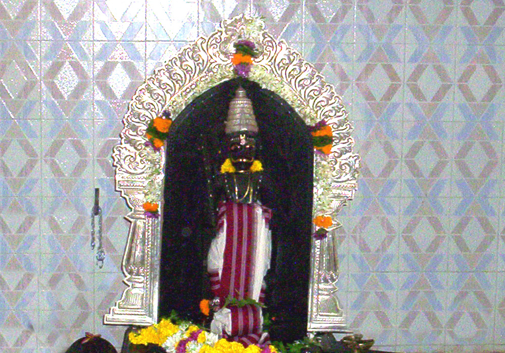 nilesh